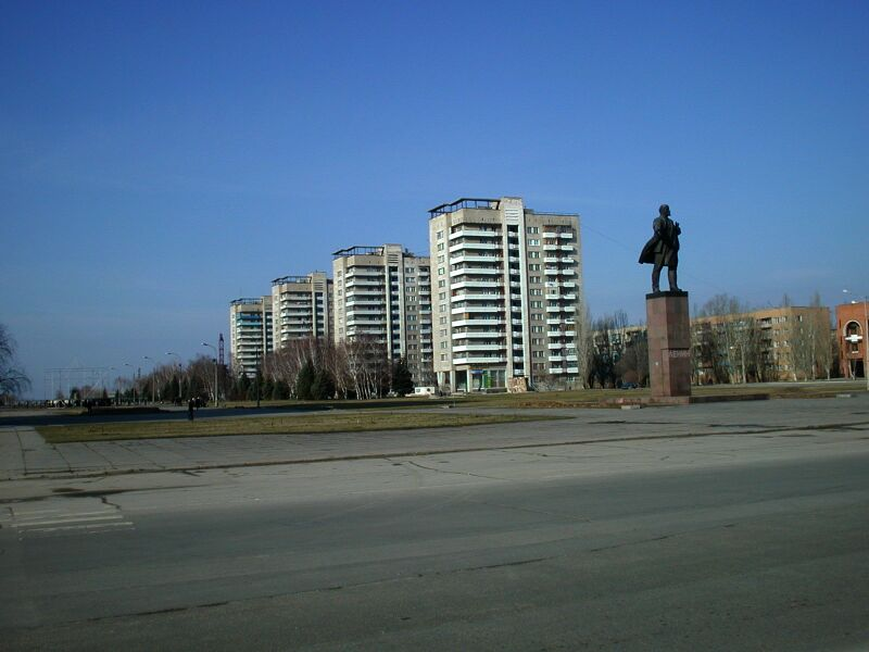 Ленин (Волжский)